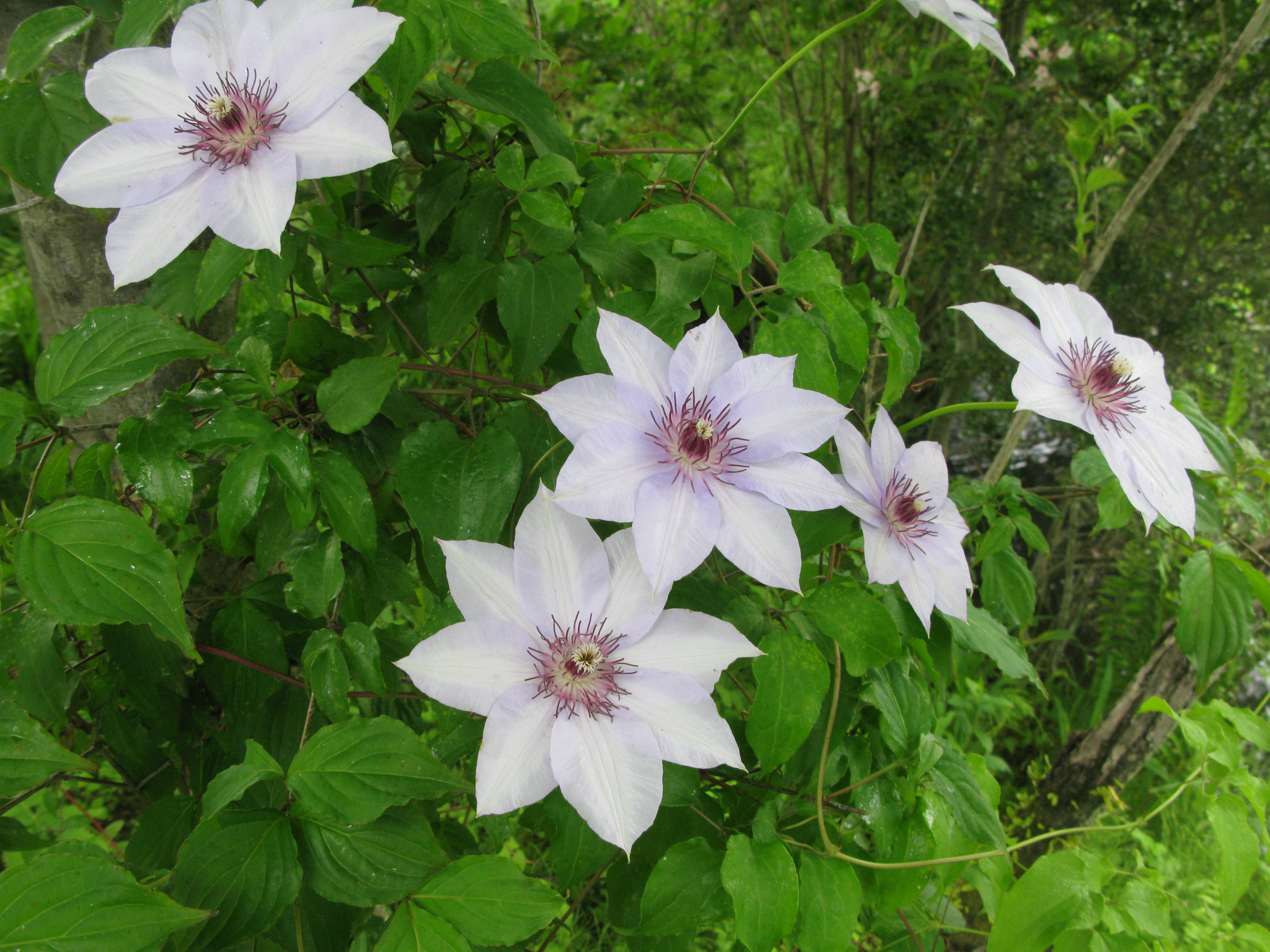 Clematis patens. Hakone Botanical Garden of Wetlands, Kanagawa pref., Japan